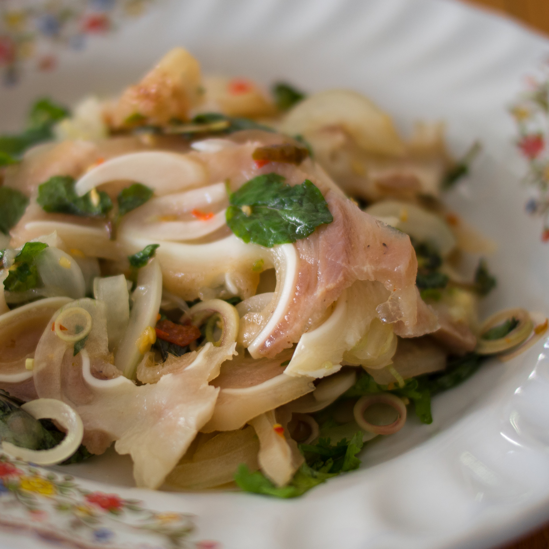 Yam hu mu (Thai script: ยำหูหมู): Thai salad made with sliced, cooked pig's ears